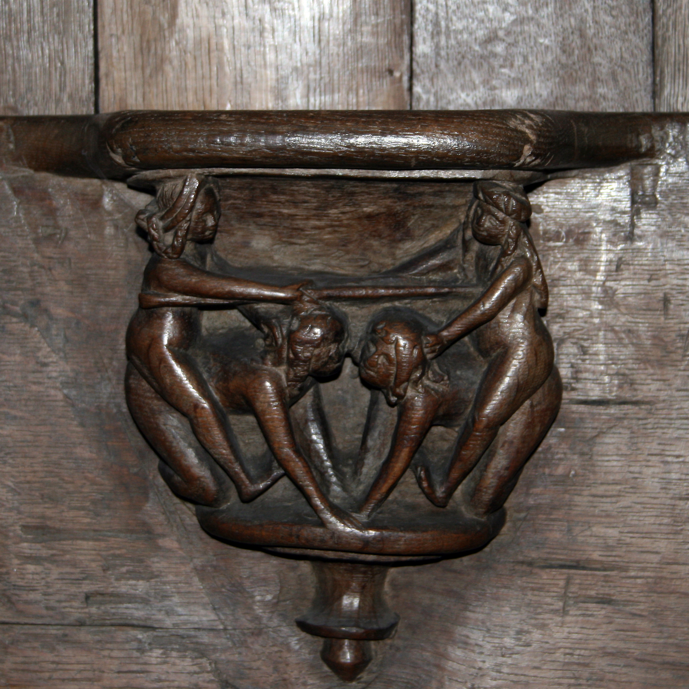 Misericord "The tourney (joust) between two naked women each straddling a man" symbolizing the power of women over the stronger sex. - Choir stalls of the Saint Materne Basilica (XVIth century) - Walcourt (Belgium).